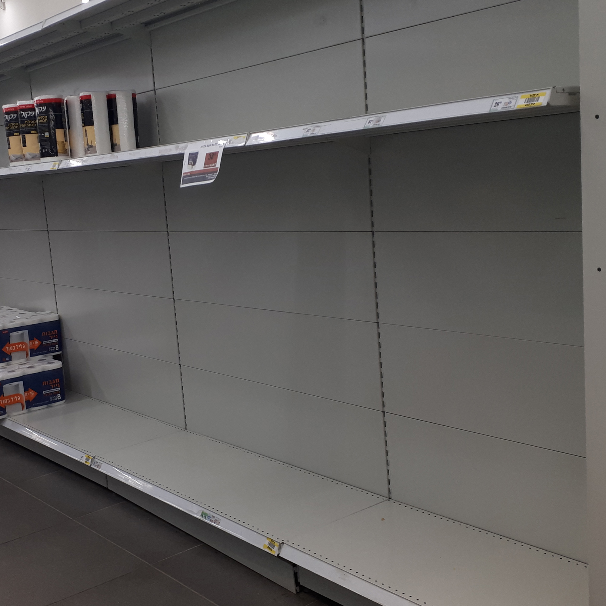 Empty Shelves of Toilet paper at the supermarket During COVID19 pandemic